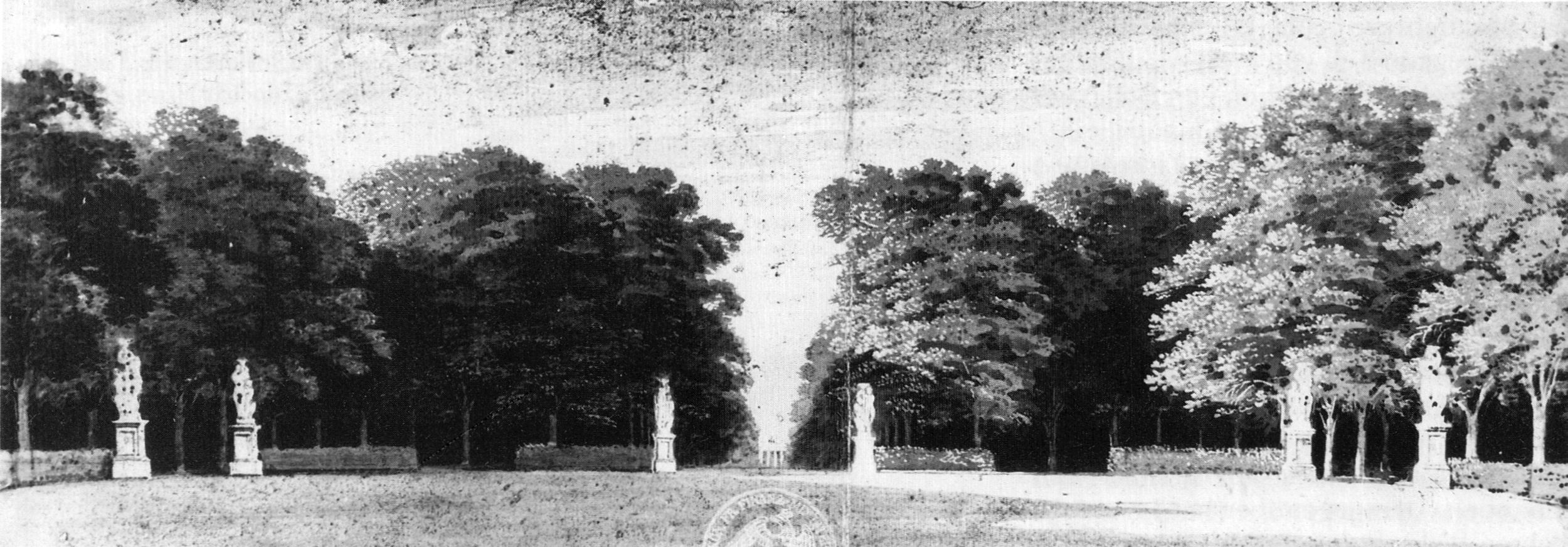 sketch for redesigning Großer Stern at Tiergarten park in Berlin by Karl Friedrich Schinkel (1816); the plan was not carried out